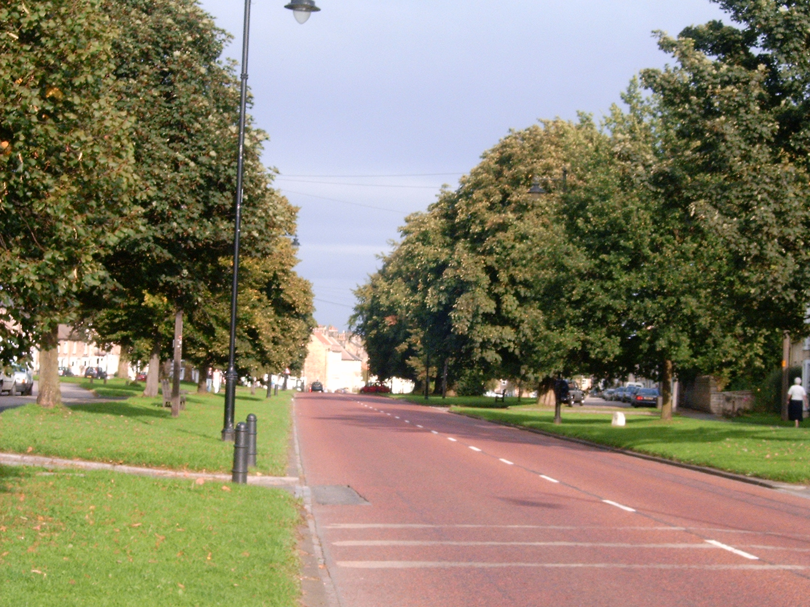 The village of Staindrop Co Durham